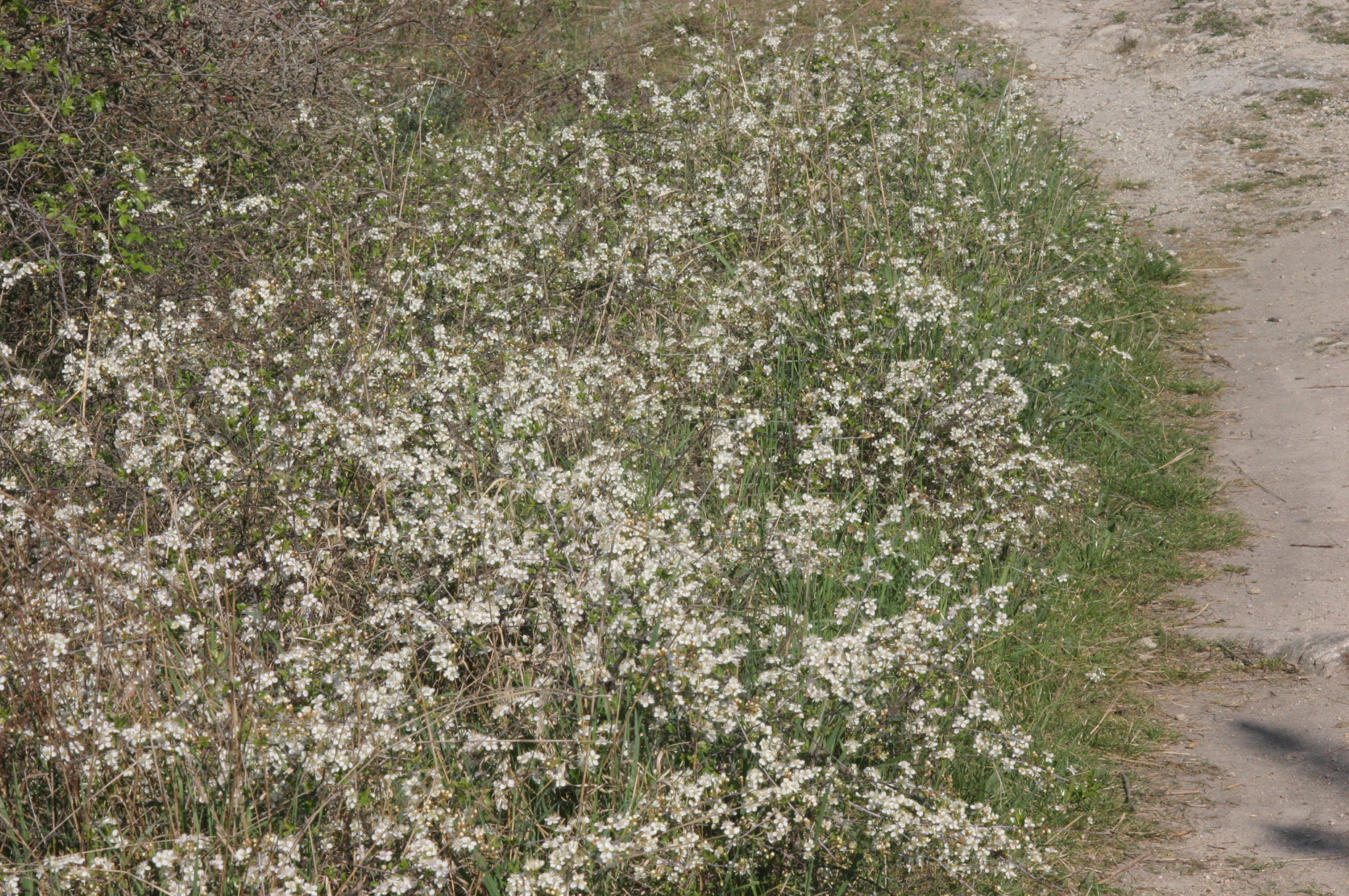 Prunus fruticosa